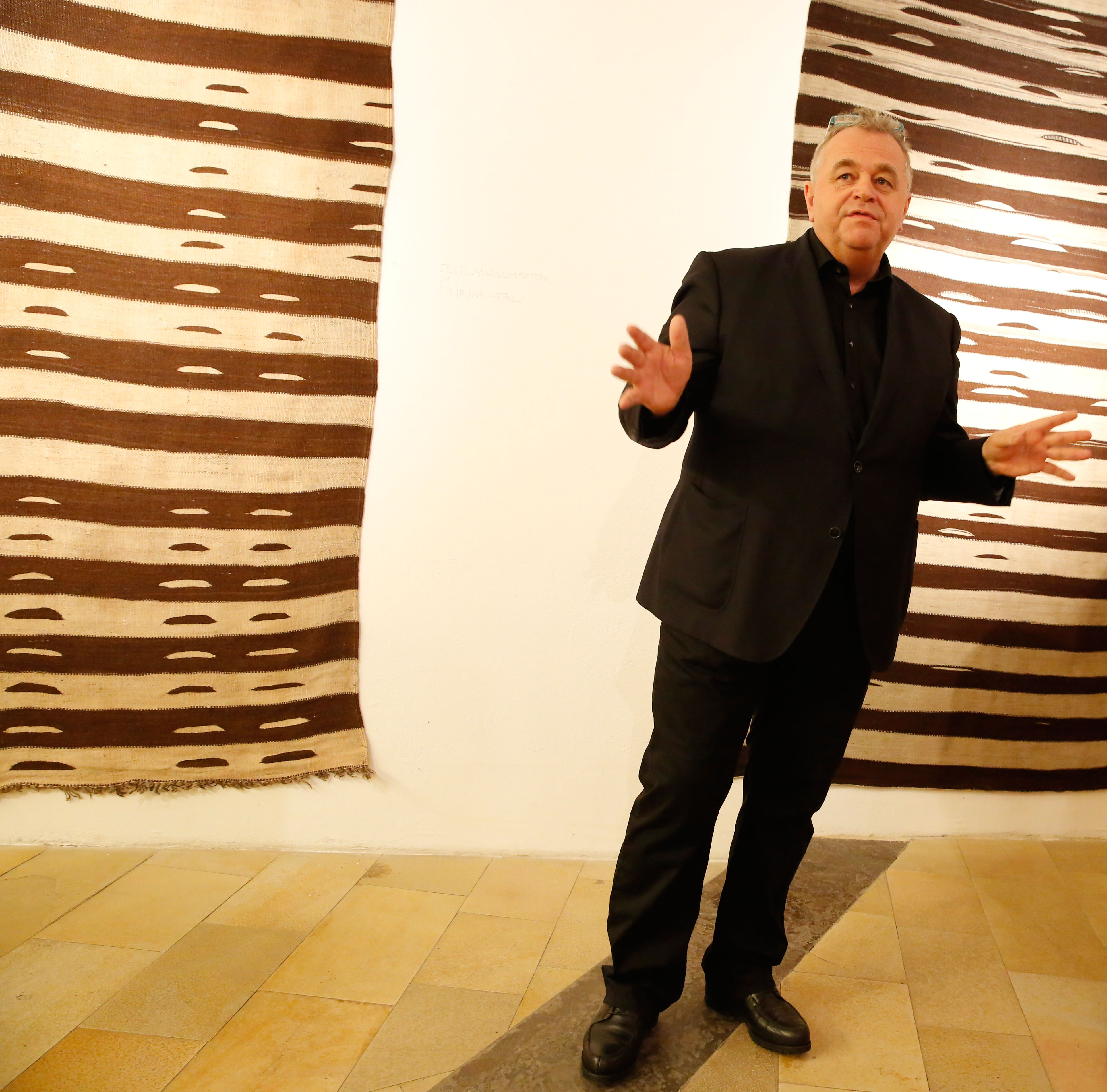 Helmut Reinisch opening an exhibition of nomadic kelims from Marocco